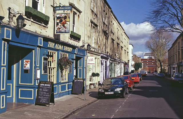 The Alma Tavern, Clifton This pub on Alma Vale Road incorporates a 50-seat theatre in its former upstairs function room. When this photograph was taken, a production of Mr Kolpert, a play by Diavid Gieselmann, was being advertised.